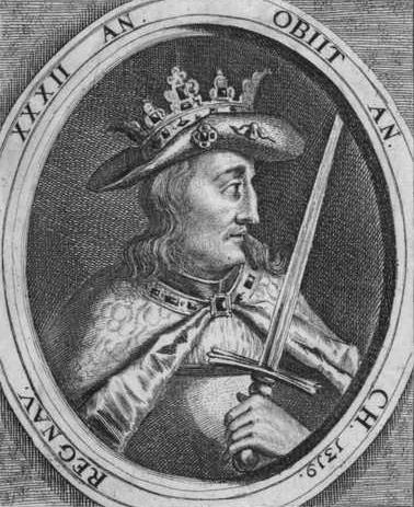 Erik VI of Denmark